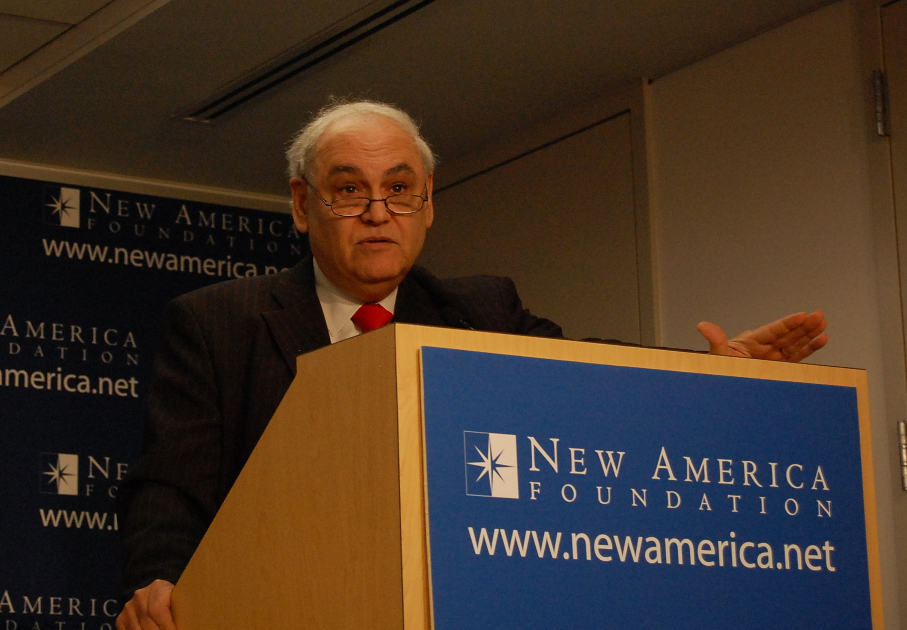 Richard Perle speaking at the New America Foundation on 22 December 2009.